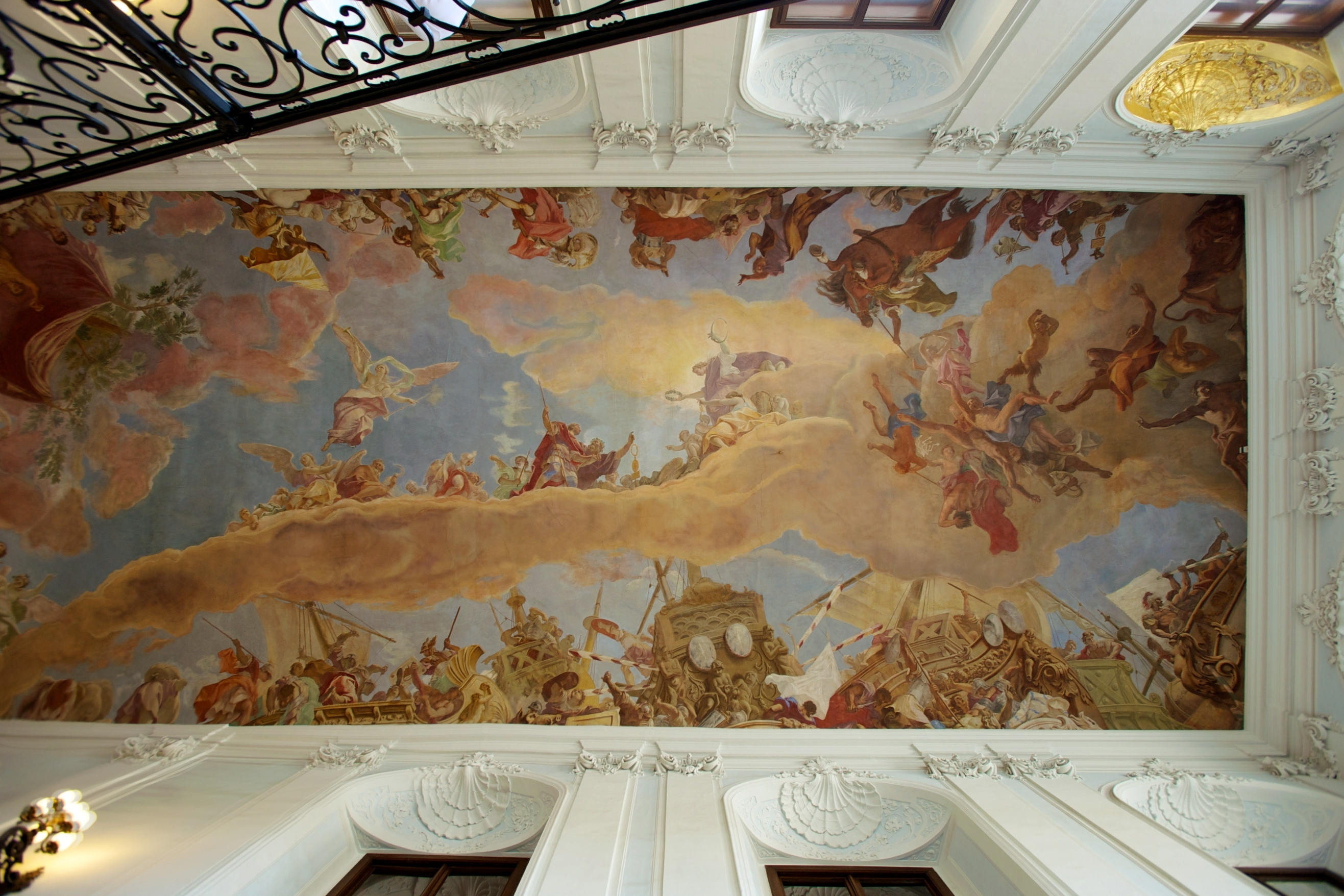 Blue Staircase in the Palace of Schönbrunn in Vienna.